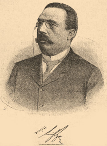 Illustration from Brockhaus and Efron Jewish Encyclopedia (1906—1913). Emil Byk (born January 14, 1845, at Janów (now Ukrainian: Dolyna), nearby Trembowla (Ukrainian: Terebovlia), in Austrian Galicia (now Ukraine) - 1906) was a Polish-Austrian-Jewish lawyer and deputy.